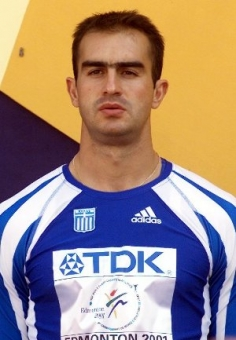 Greek javelin thrower Kostas Gatsioudis in Edmonton, 2001. Digitized 2013.